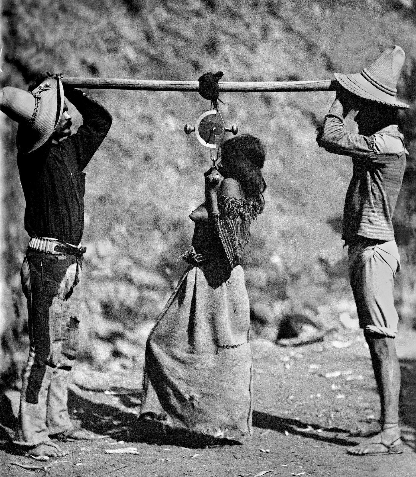 Carl Lumholtz: Tarahumara Woman Being Weighed, Barranca de San Carlos (Sinforosa), Chihuahua, 1892; from Among Unknown Tribes: Rediscovering the Photographs of Explorer Carl Lumholtz.